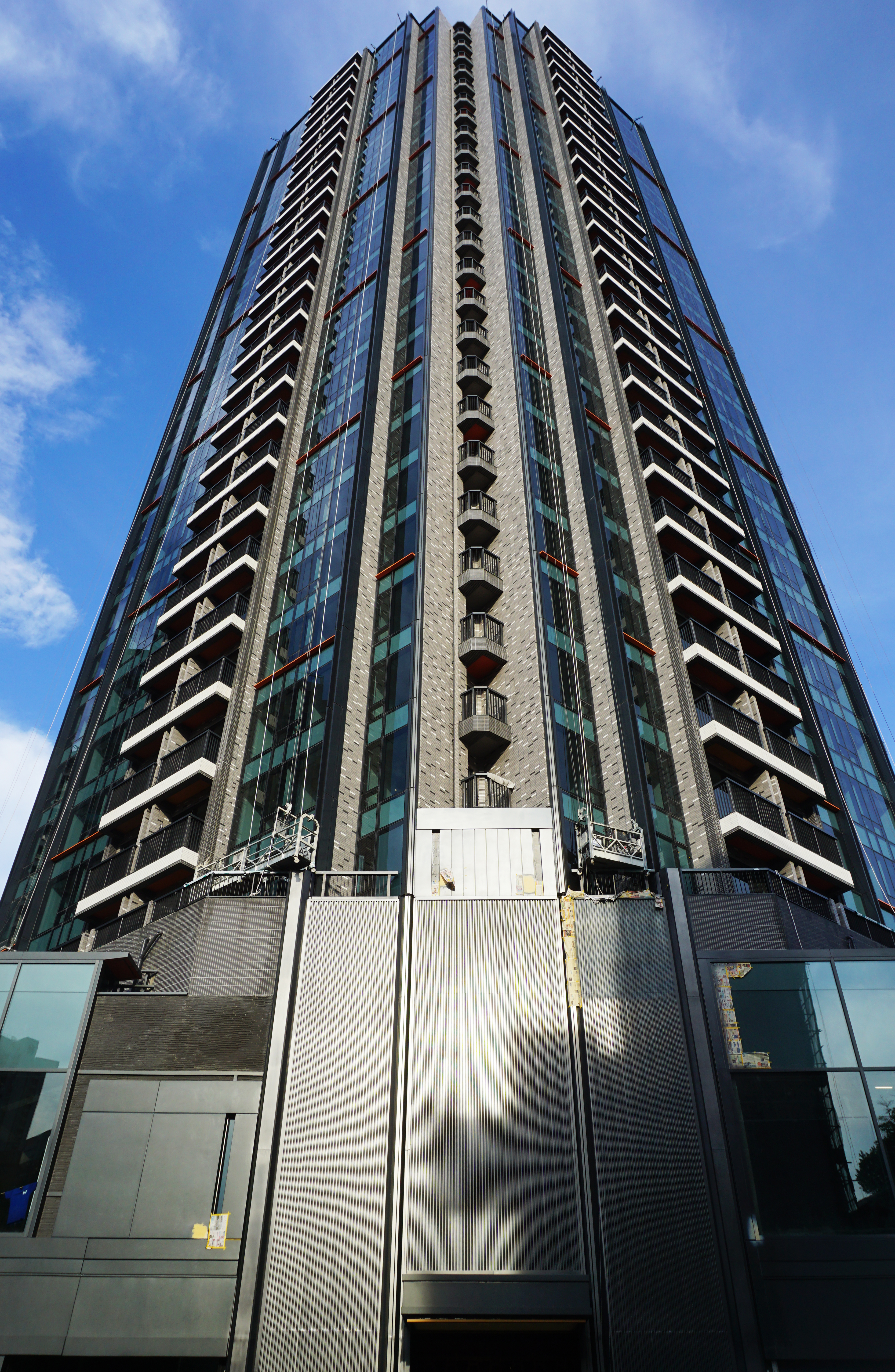 The Parkville in Tuen Mun, Hong Kong.